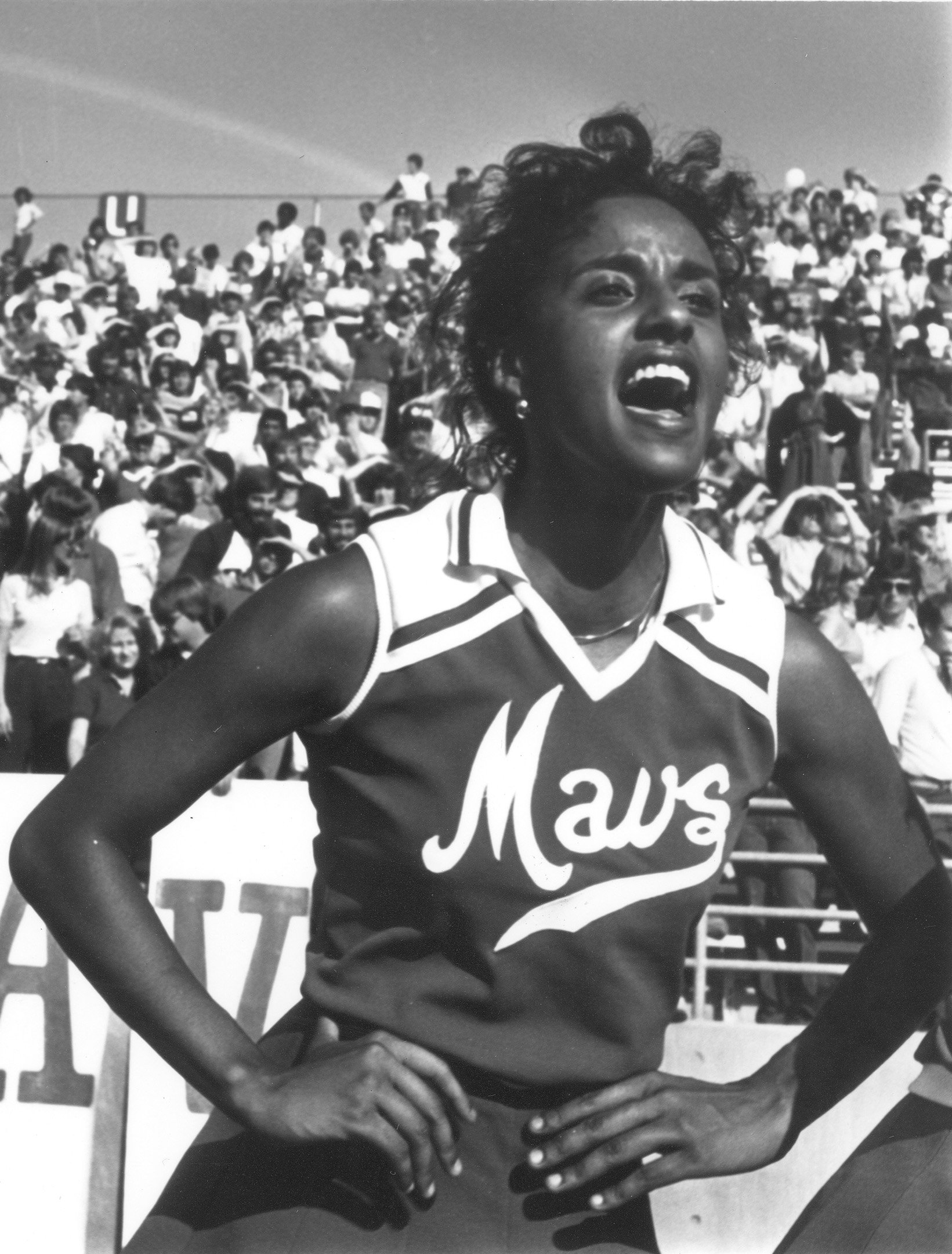 University of Texas at Arlington cheerleader, not identified.